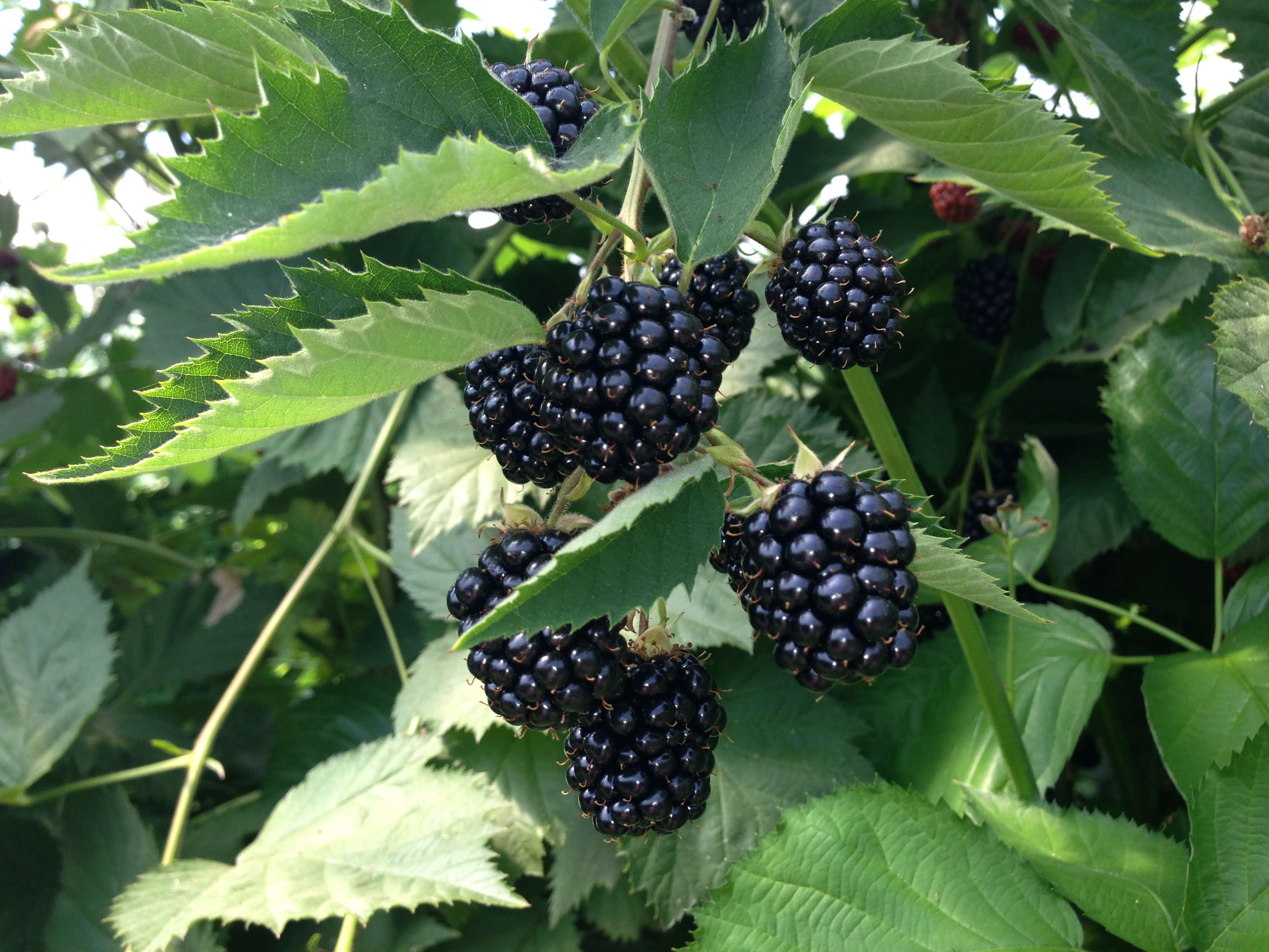 Blackberries near Erlangen in summer 2013